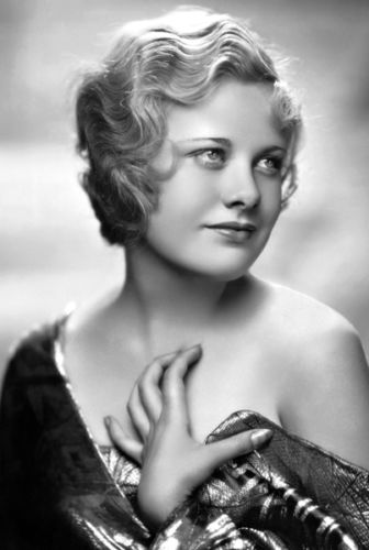 Joan Marsh, foto pubblicitaria